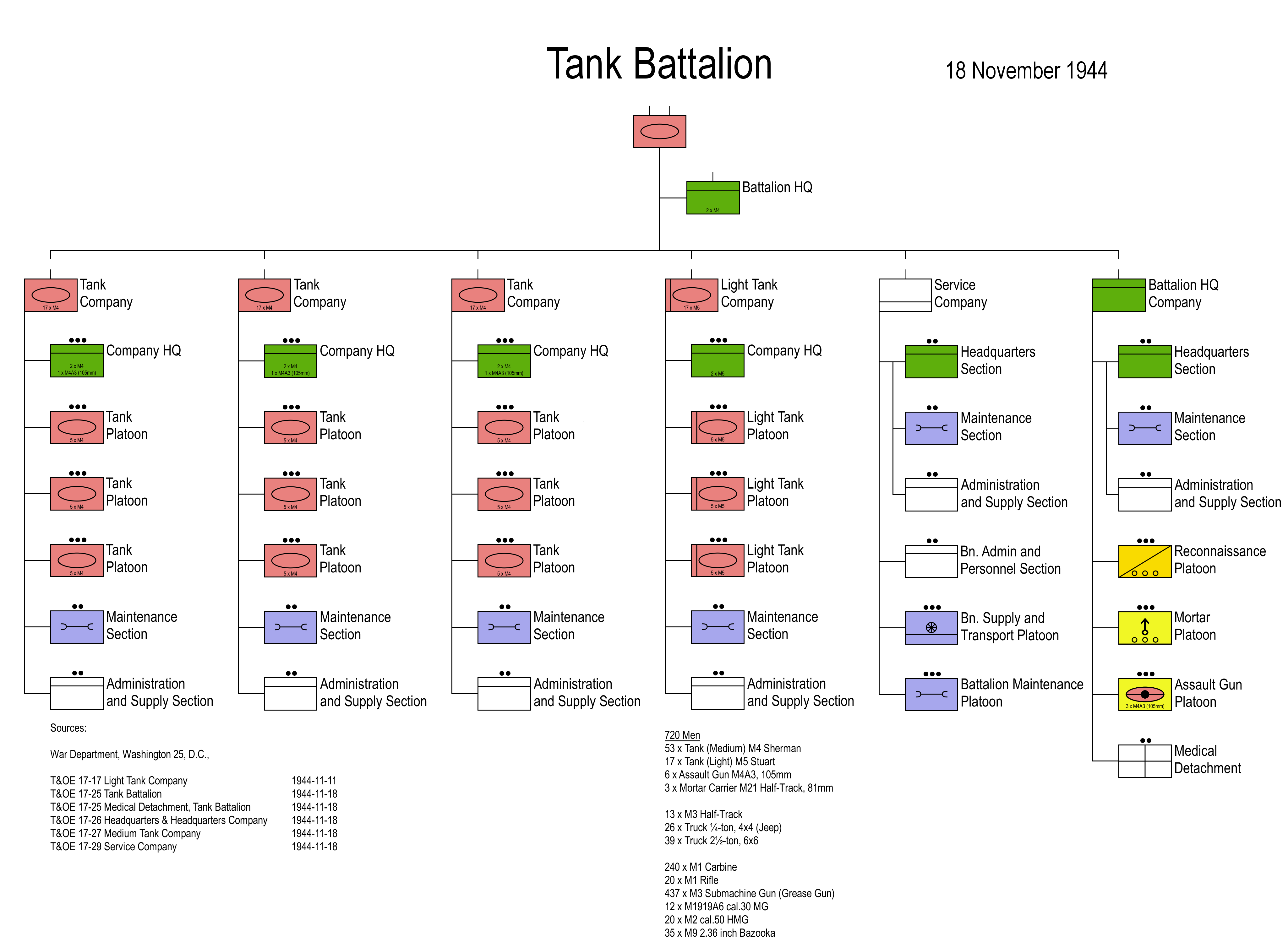 Order of Battle and condensed T&OE of US Tank Battalion, November 1944